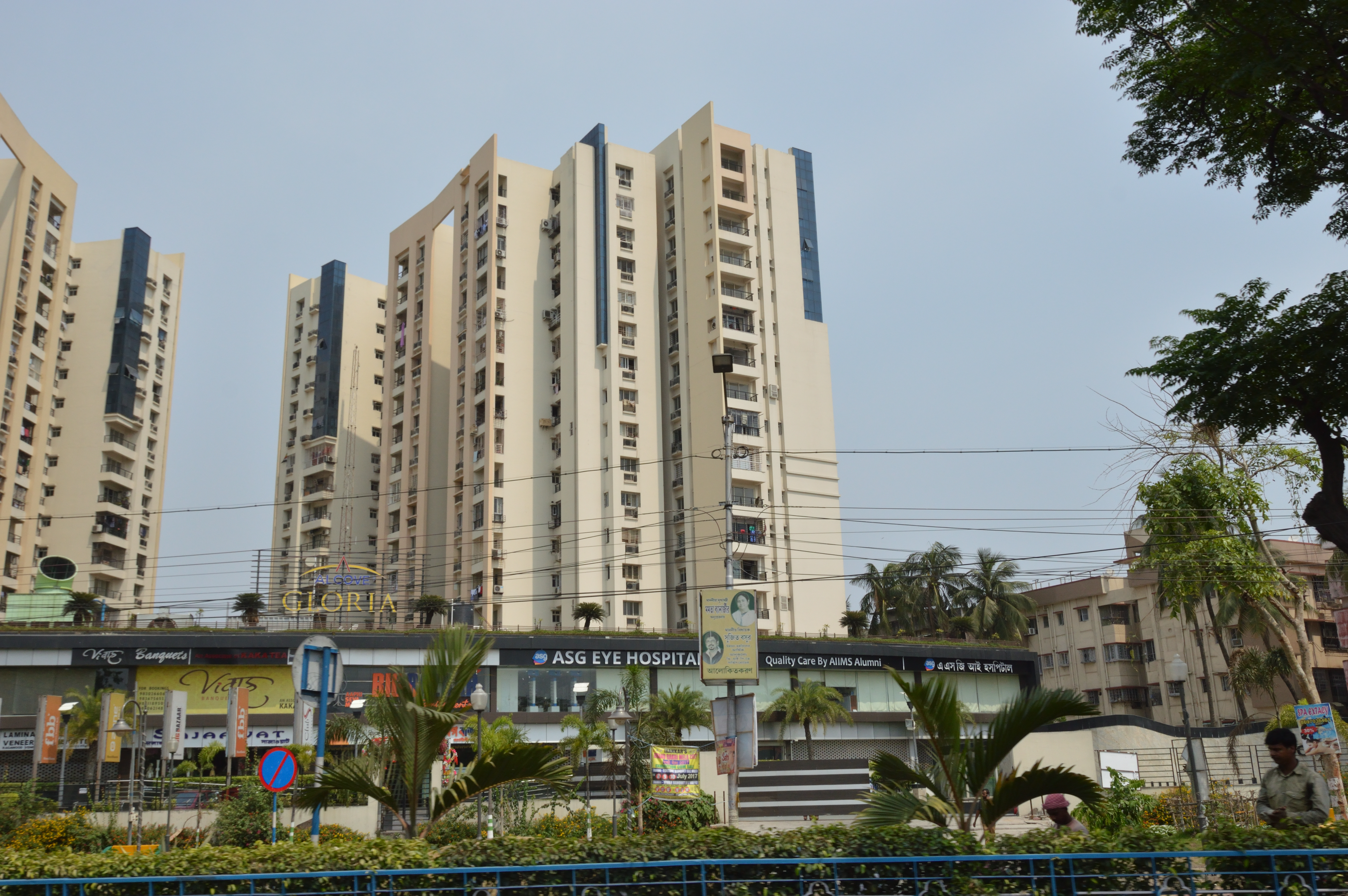 Photographed in Kolkata, West Bengal, India.